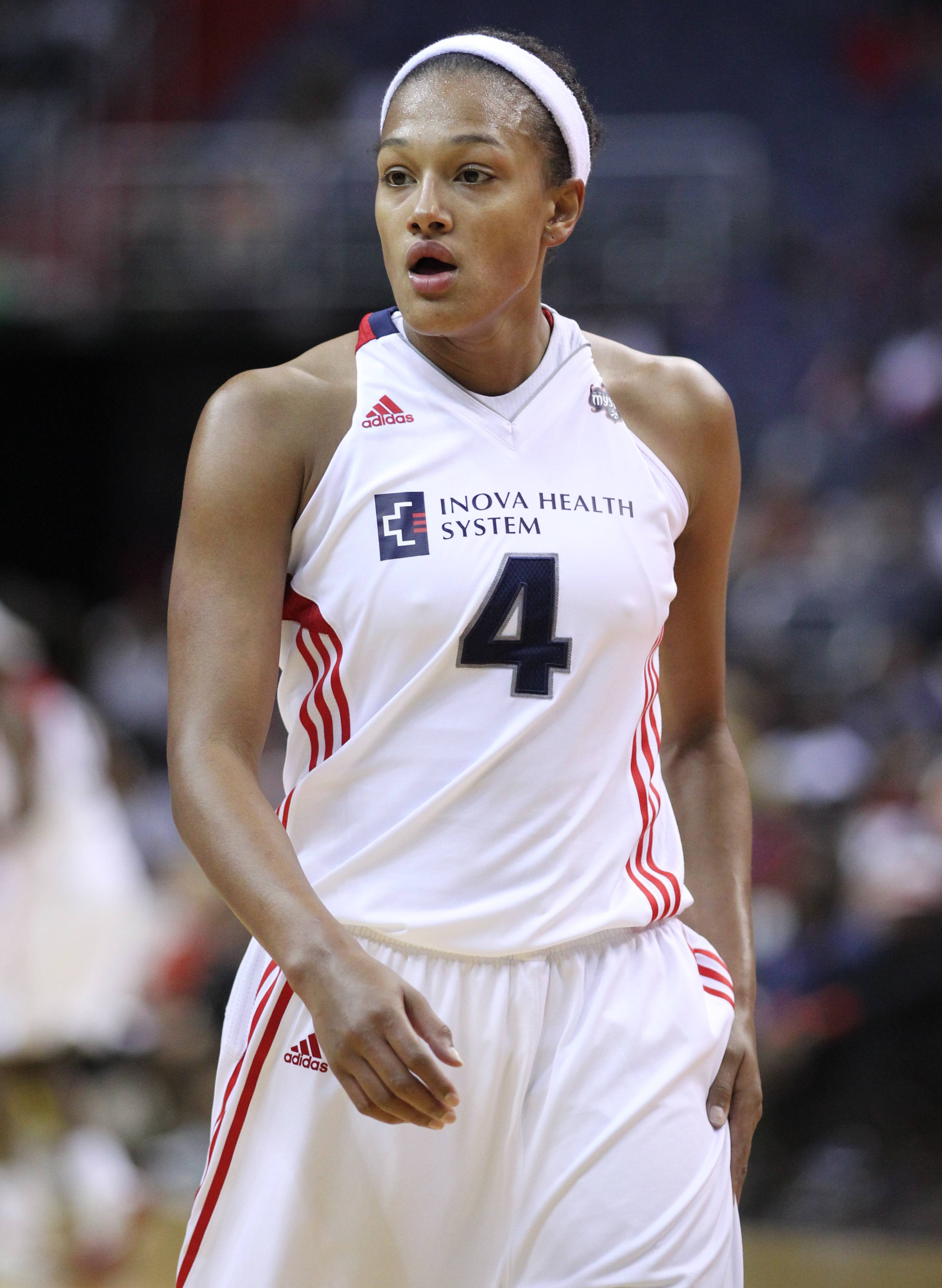 Marissa Coleman of the Washington Mystics (at time of photo)